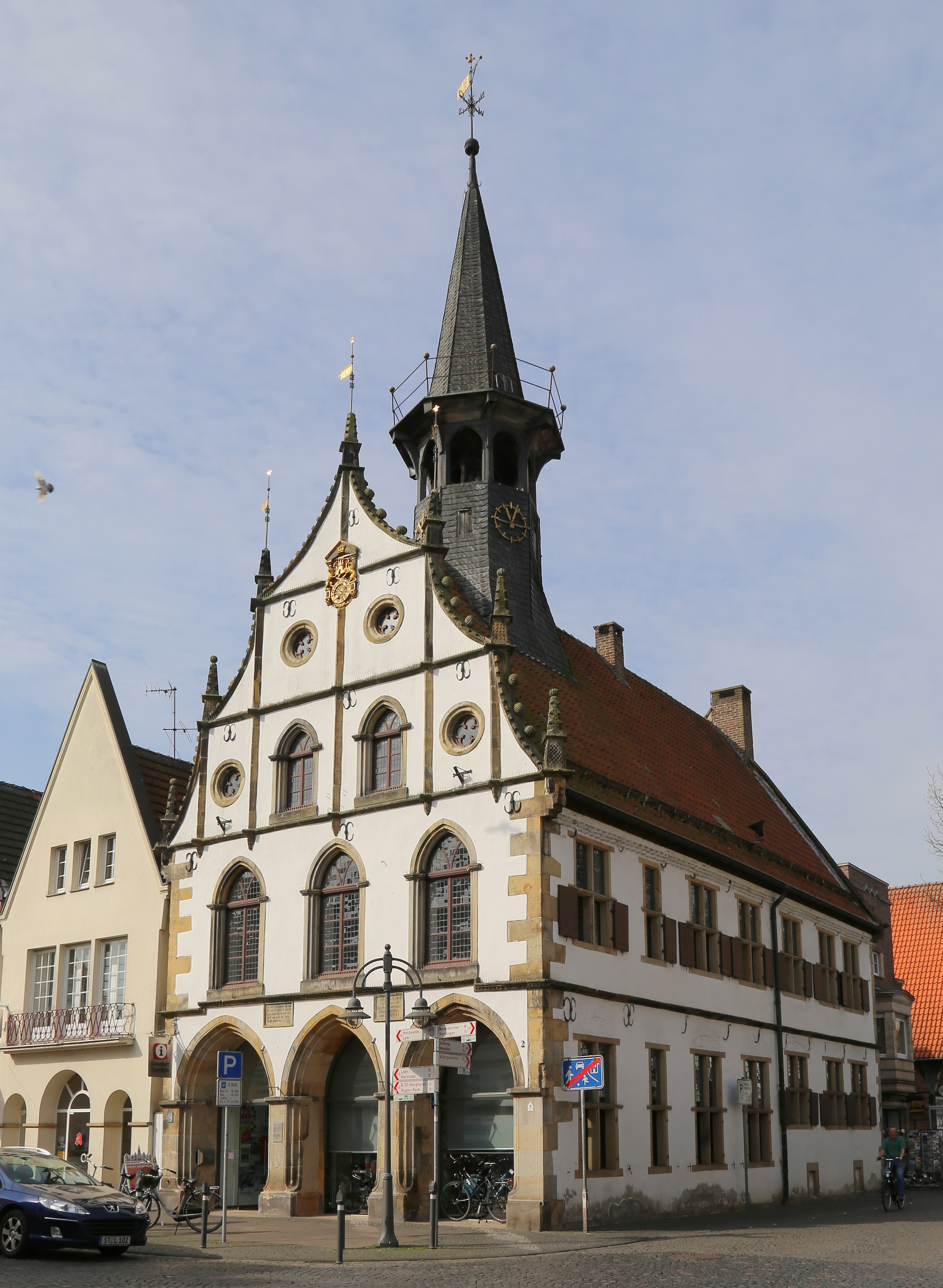 Former town hall (Altes Rathaus), 2 Market (Markt 2) in Steinfurt-Burgsteinfurt, Kreis Steinfurt, North Rhine-Westphalia, Germany. The listed building is now the home of the Steinfurt tourist information centre.